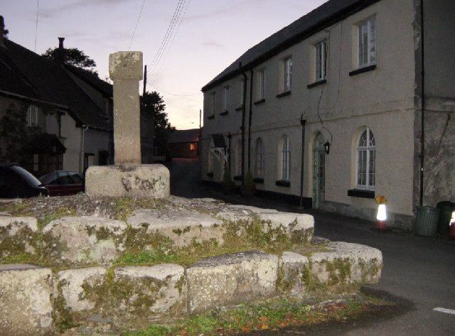 St Ewe Cross and St Ewe at dusk. The base is set four-square to the points of the compass and not orientated to the village. The centre pillar is possibly the shaft of an ancient cross brought from elsewhere.